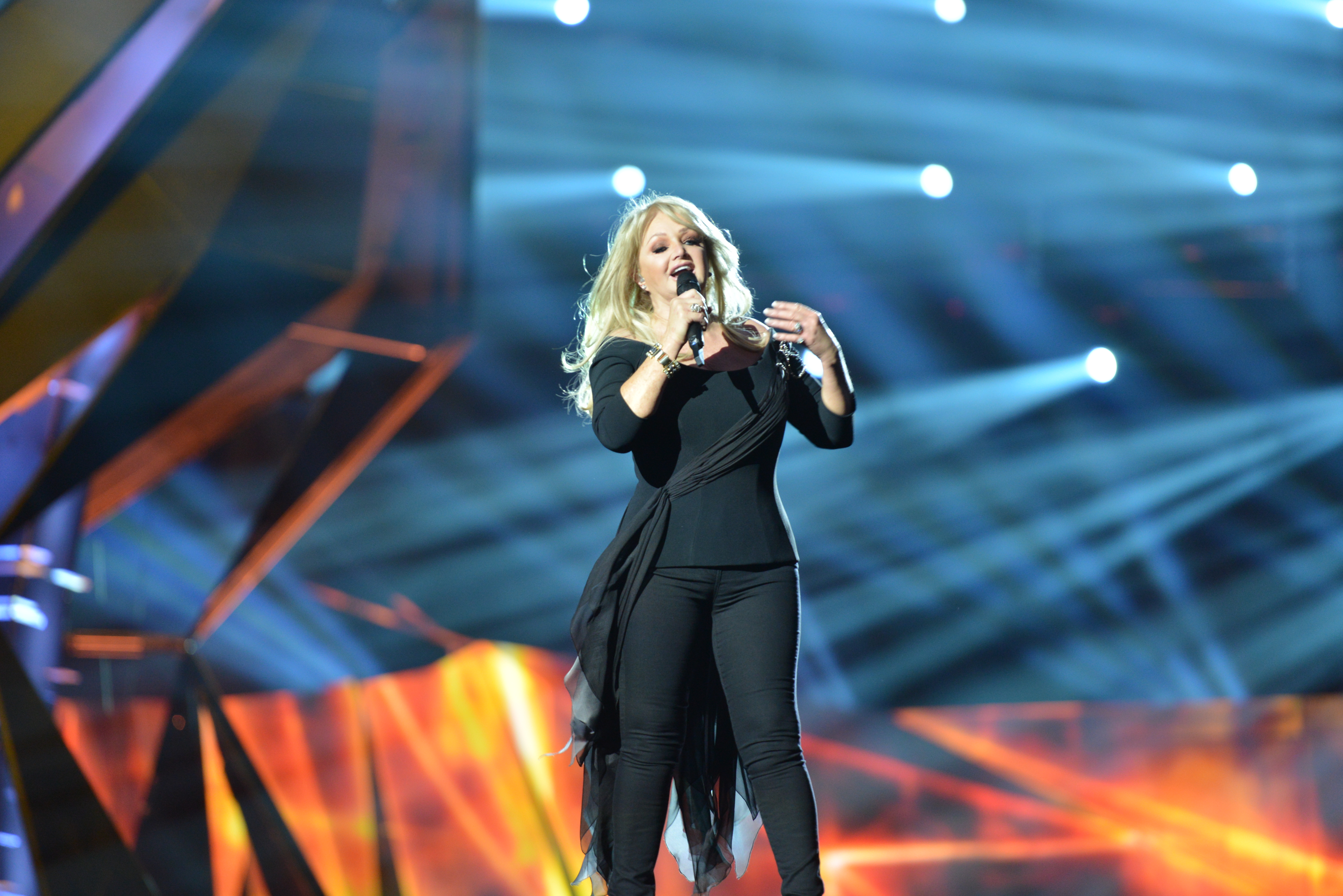 Bonnie Tyler representing United Kingdom with the song "Believe in Me" during the first dress rehearsal for "the Big Five" in the Eurovision Song Contest 2013 in Malmö. (Help translate this text)